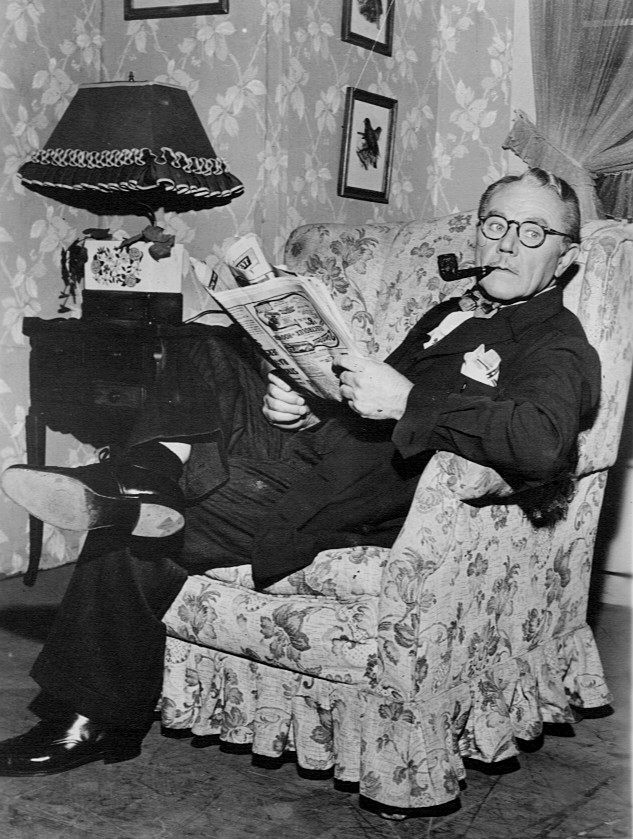 Photo of Charles Ruggles from the television comedy The Ruggles.